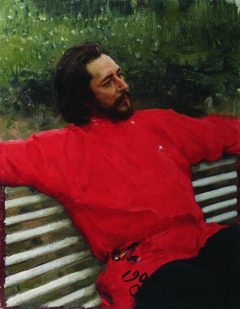 Portrait of writer Leonid Nikolayevich Andreyev (Summer break).label QS:Len,"Portrait of writer Leonid Nikolayevich Andreyev (Summer break)."label QS:Les,"Retrato del escritor Leoníd Nikoláyevich Andréyev (Descanso estival)."label QS:Lru,"Портрет писателя Леонида Николаевича Андреева (Летний отдых)."